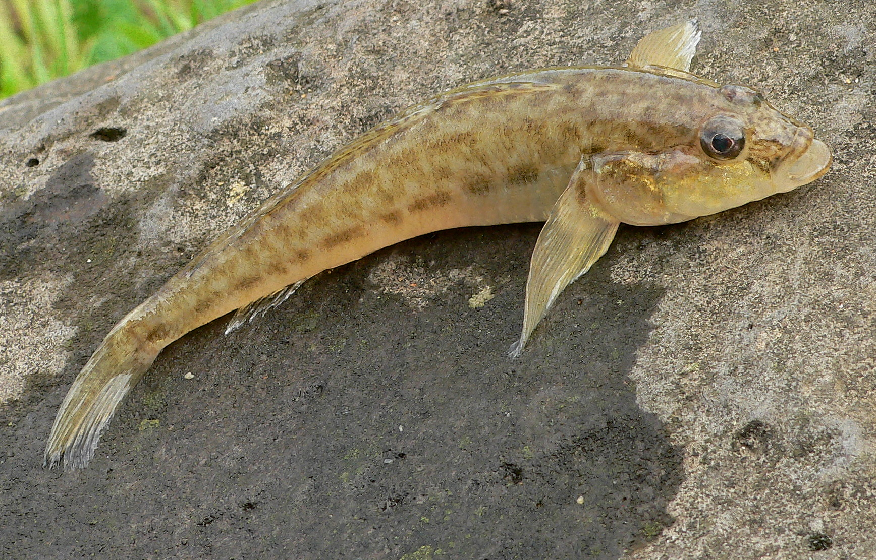 Neogobius fluviatilis an invasive species from the Danube here in the river Rhine at Arnhem.